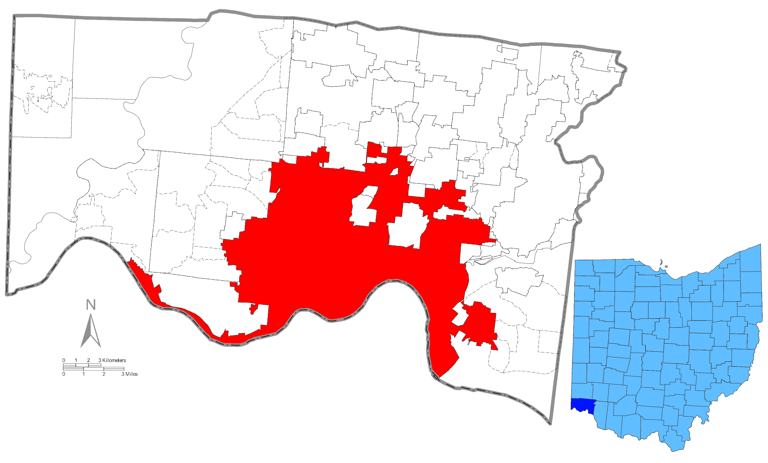 Map of Hamilton County, Ohio highlighting Cincinnati with an inset map of Ohio highlighting Hamilton County.